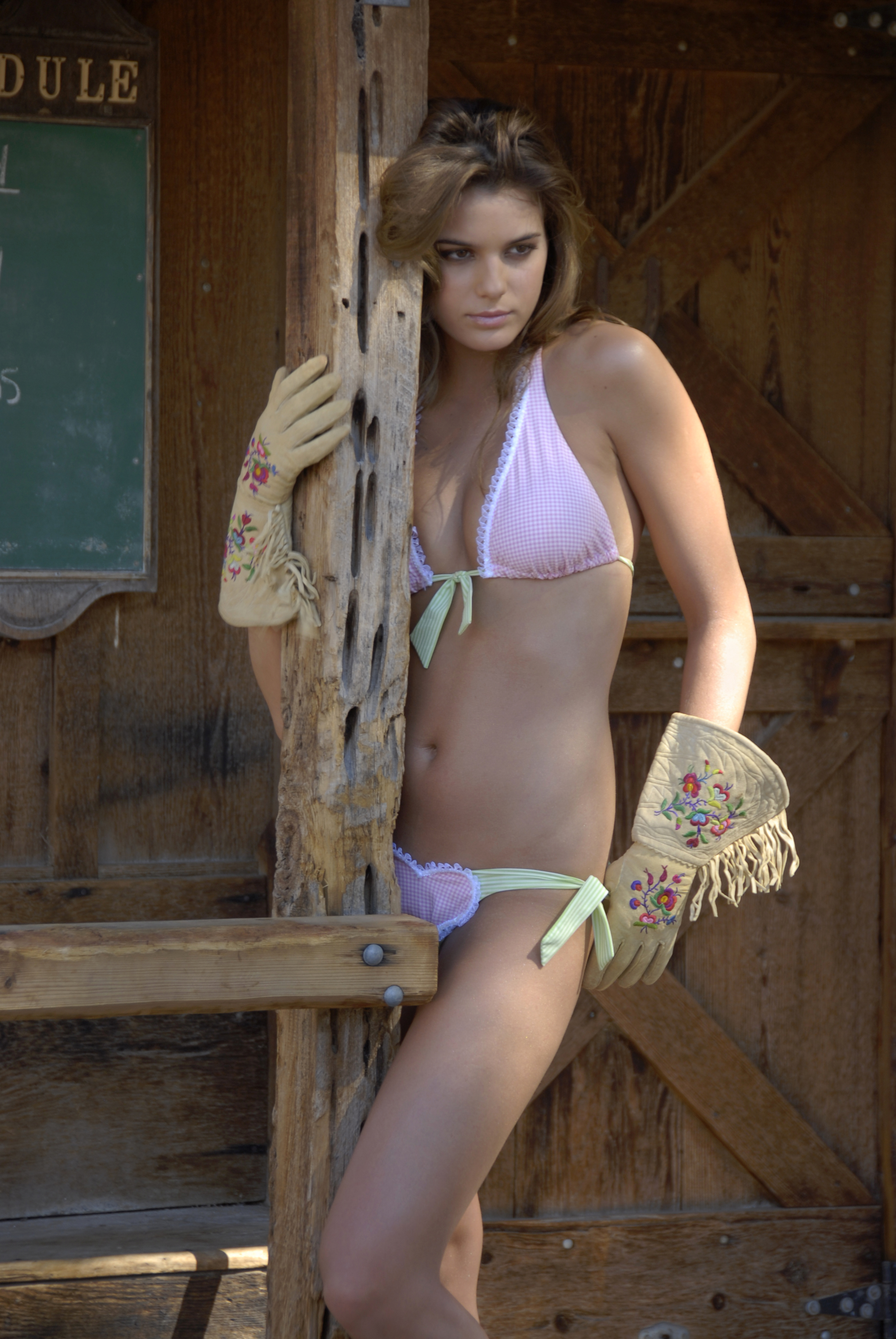 Yésica Toscanini, fashion model, during photo shoot in Tuscon, Arizona.